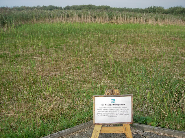 Fen Meadow After its annual cut to keep it open and damp and suitable for the marsh plants found here.